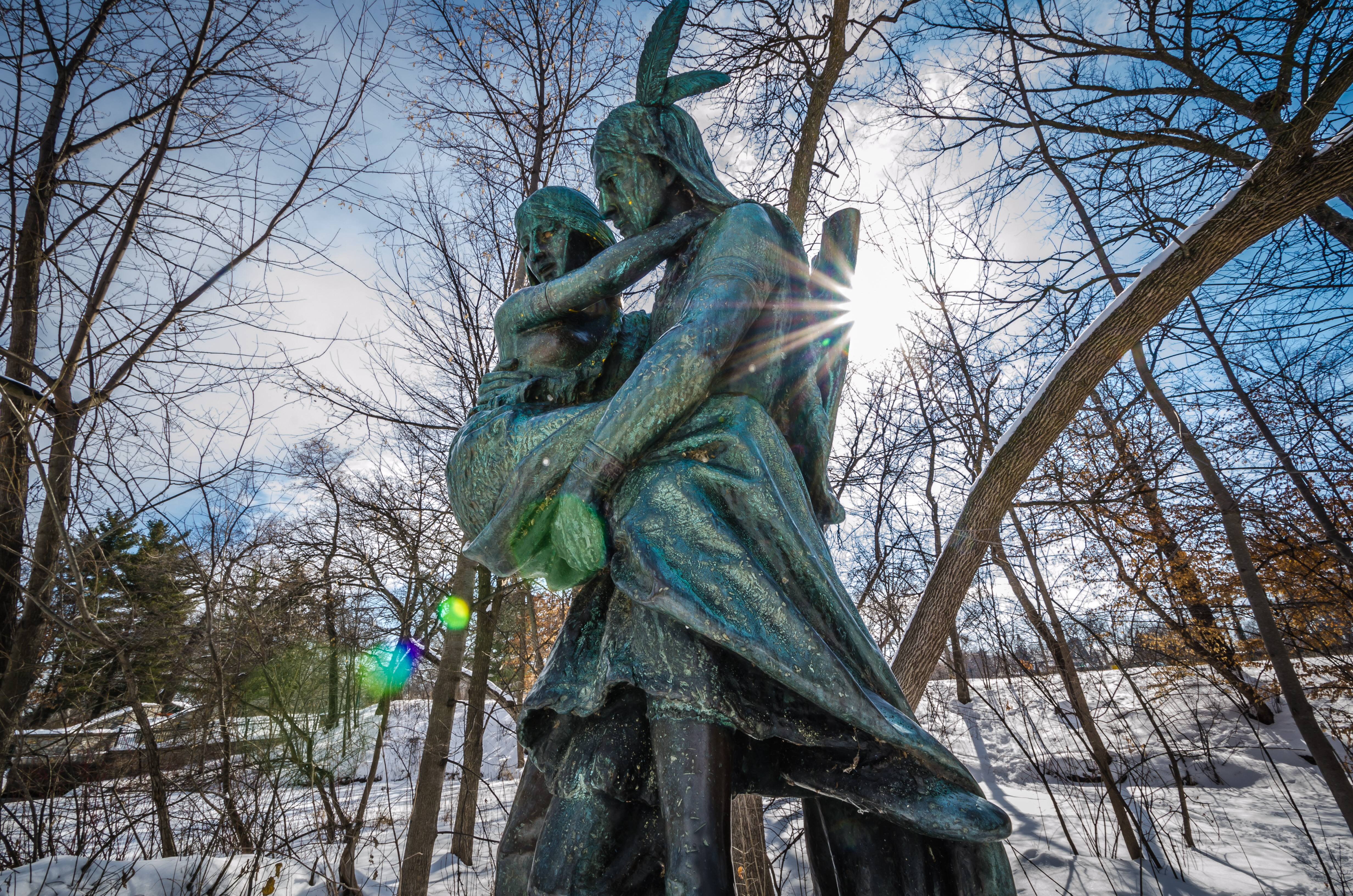 Hiawatha and Minnehaha sculpture by Jacob Fjelde (1855-1896).